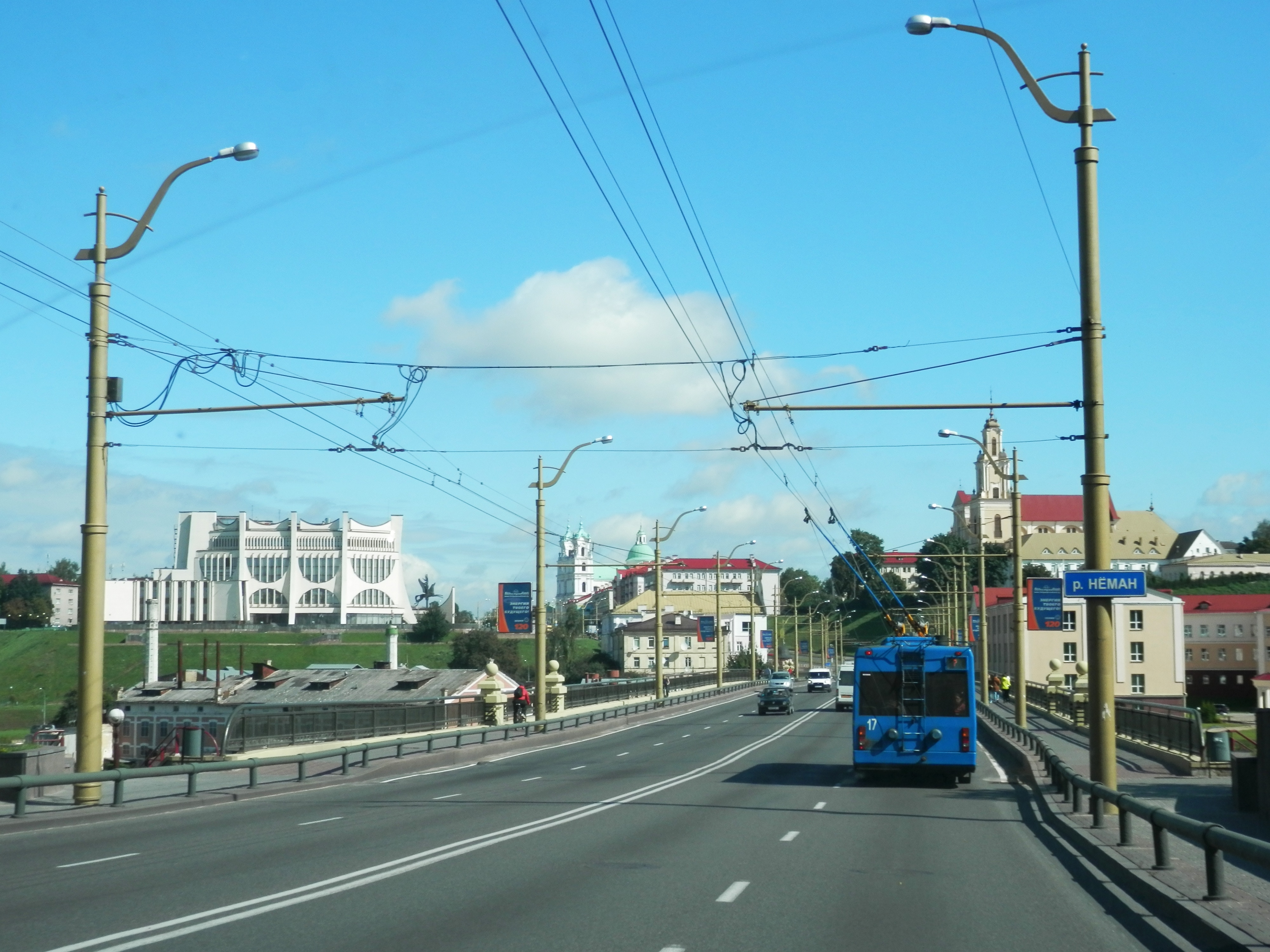 Sightseeing of Grodno